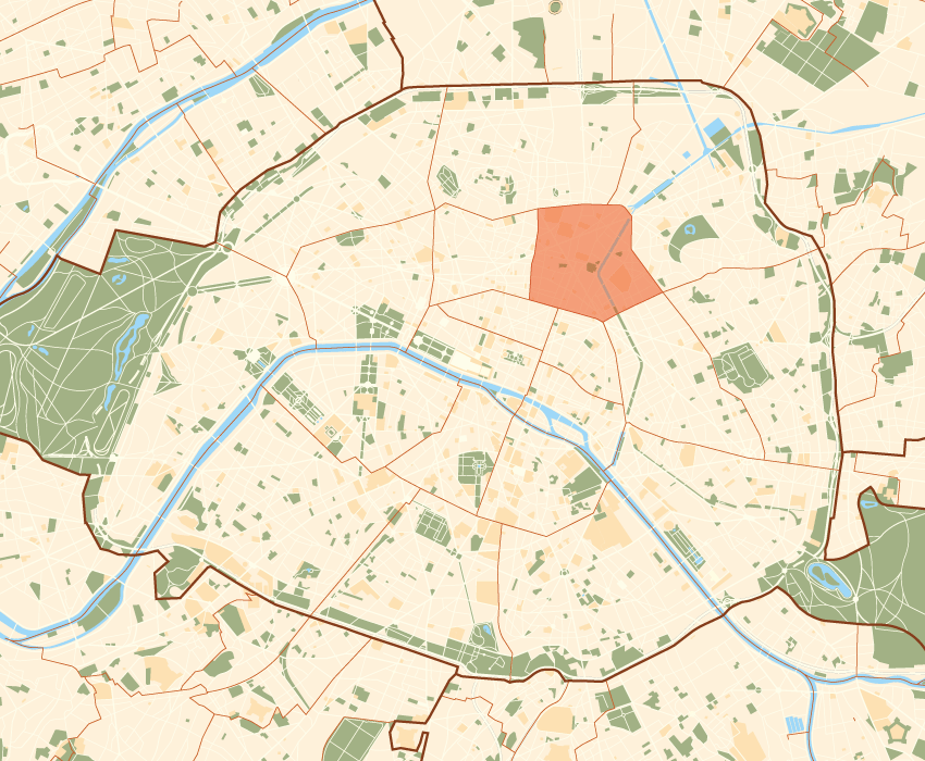 Plan by ThePromenader (own work)